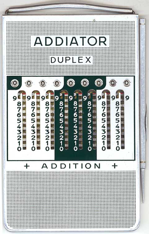 "Addiator" mechanical addition and subtraction (back side) tool